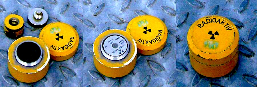 137CS radioactive source/emitter